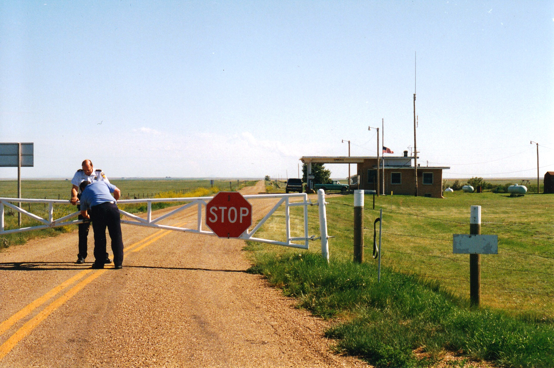 US and Canadian Inspectors work together to close the gates between the two countries at the end of the day